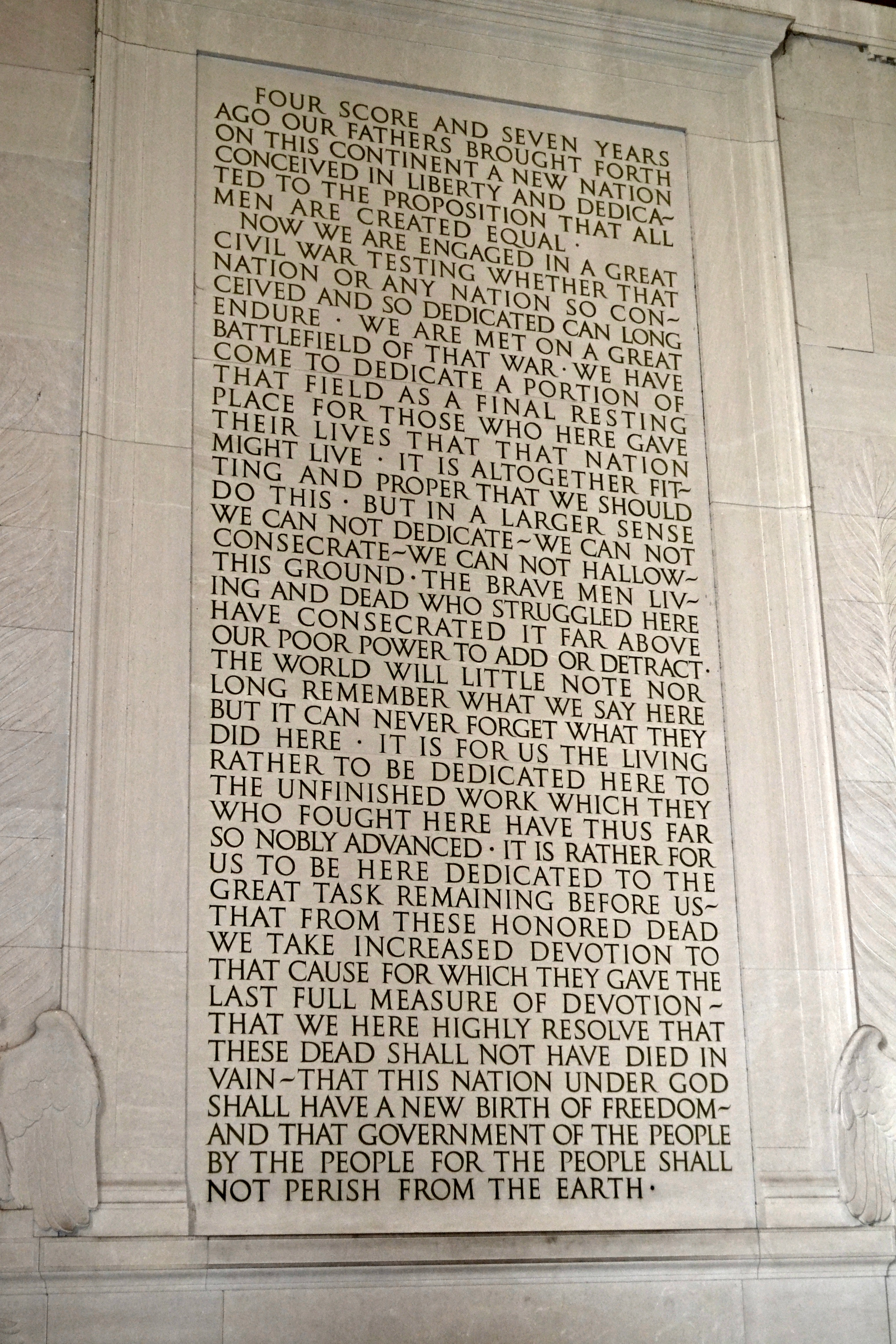 Abraham Lincoln's Gettysburg Address Inscribed at Lincoln Memorial